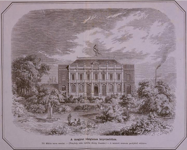 Parliament in Hungary 1866